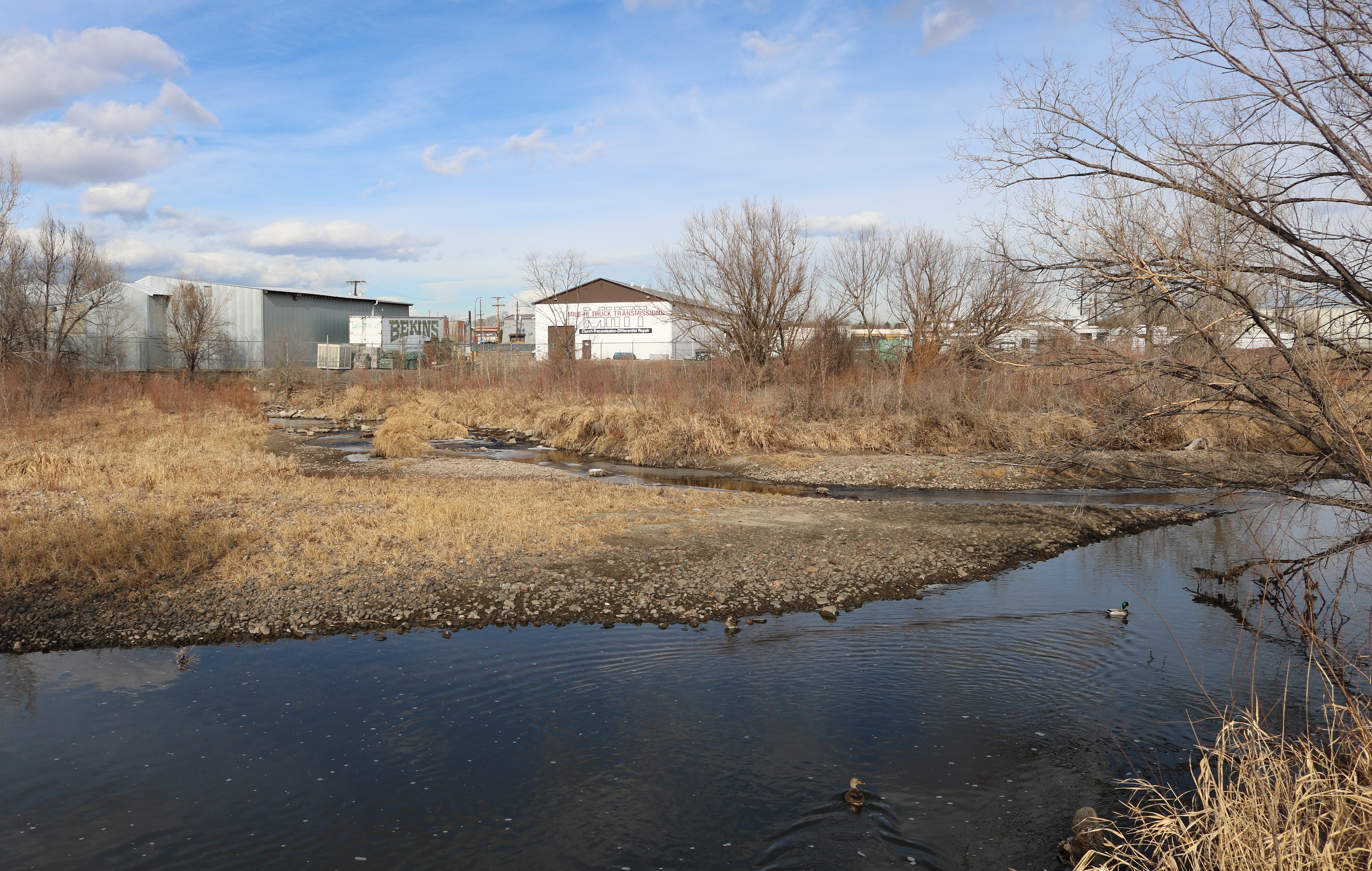 Ralston Creek (top) at its confluence with Clear Creek at Gold Strike Park in Arvada, Colorado. Here gold was first discovered in Colorado. In the picture, Clear Creek is at the bottom, and Ralston Creek empties into it in the center-right of the picture.